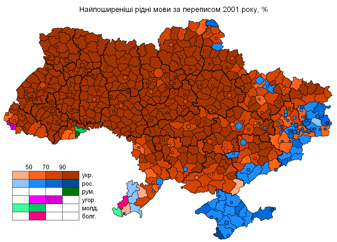 Native languages in Ukraine according to 2001 census